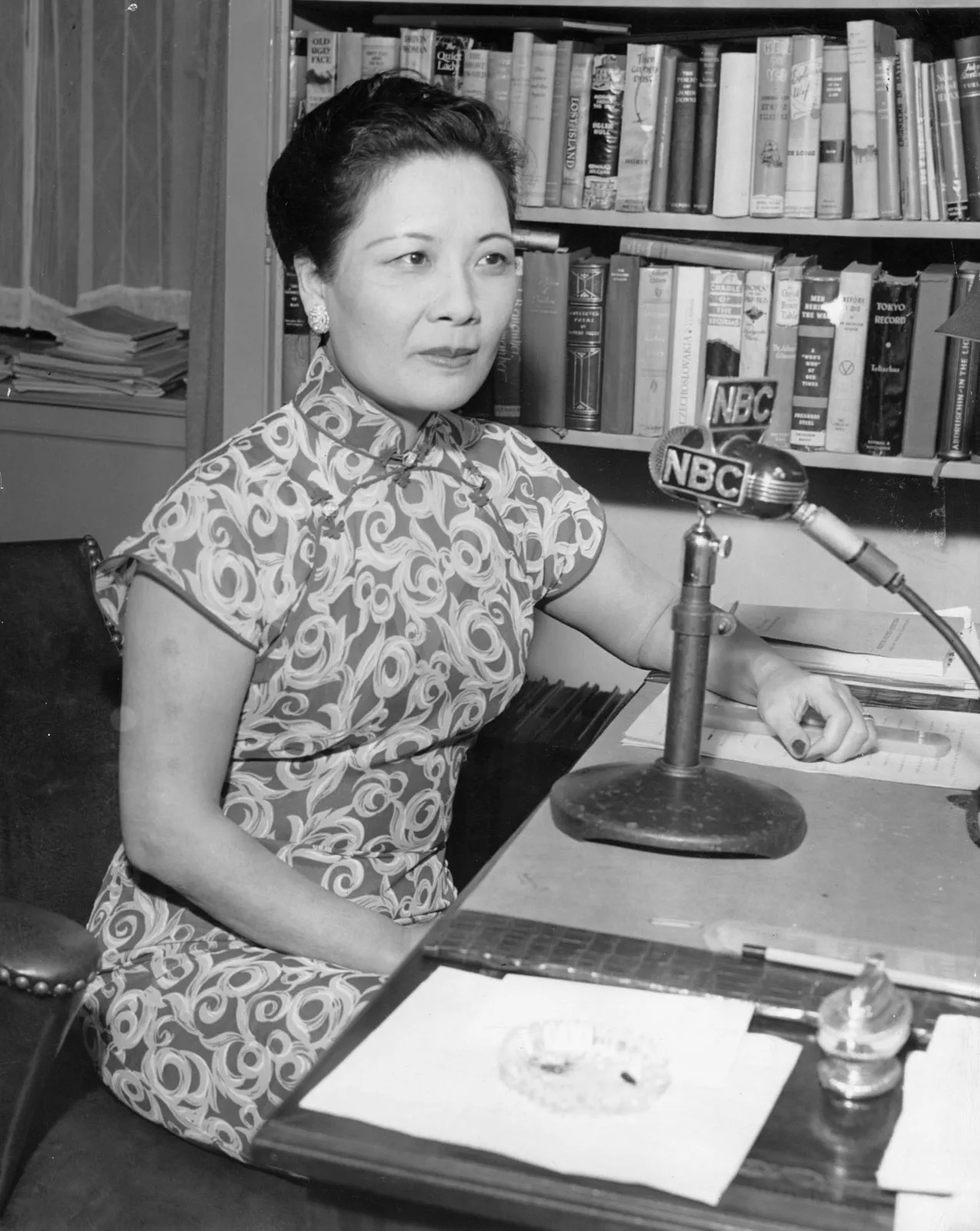 Soong Mei-ling giving a special radio broadcast to thank the American people for their support of China during the Sino-Japanese War (1937–45).